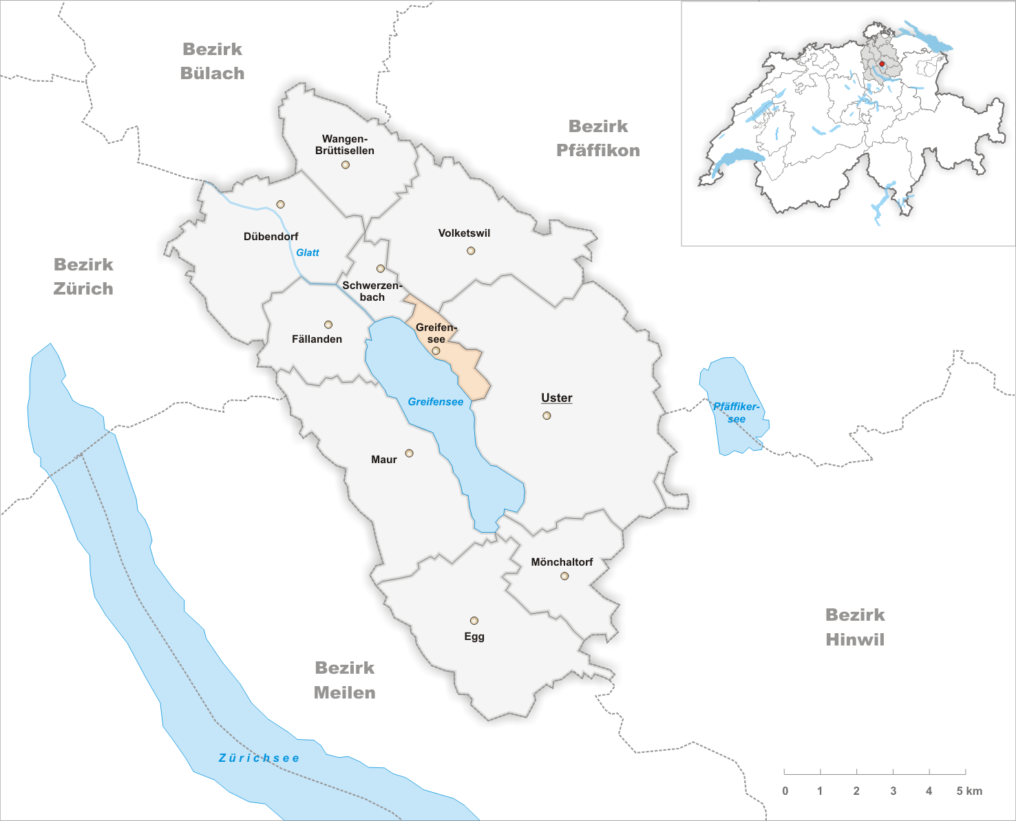 Municipality Greifensee